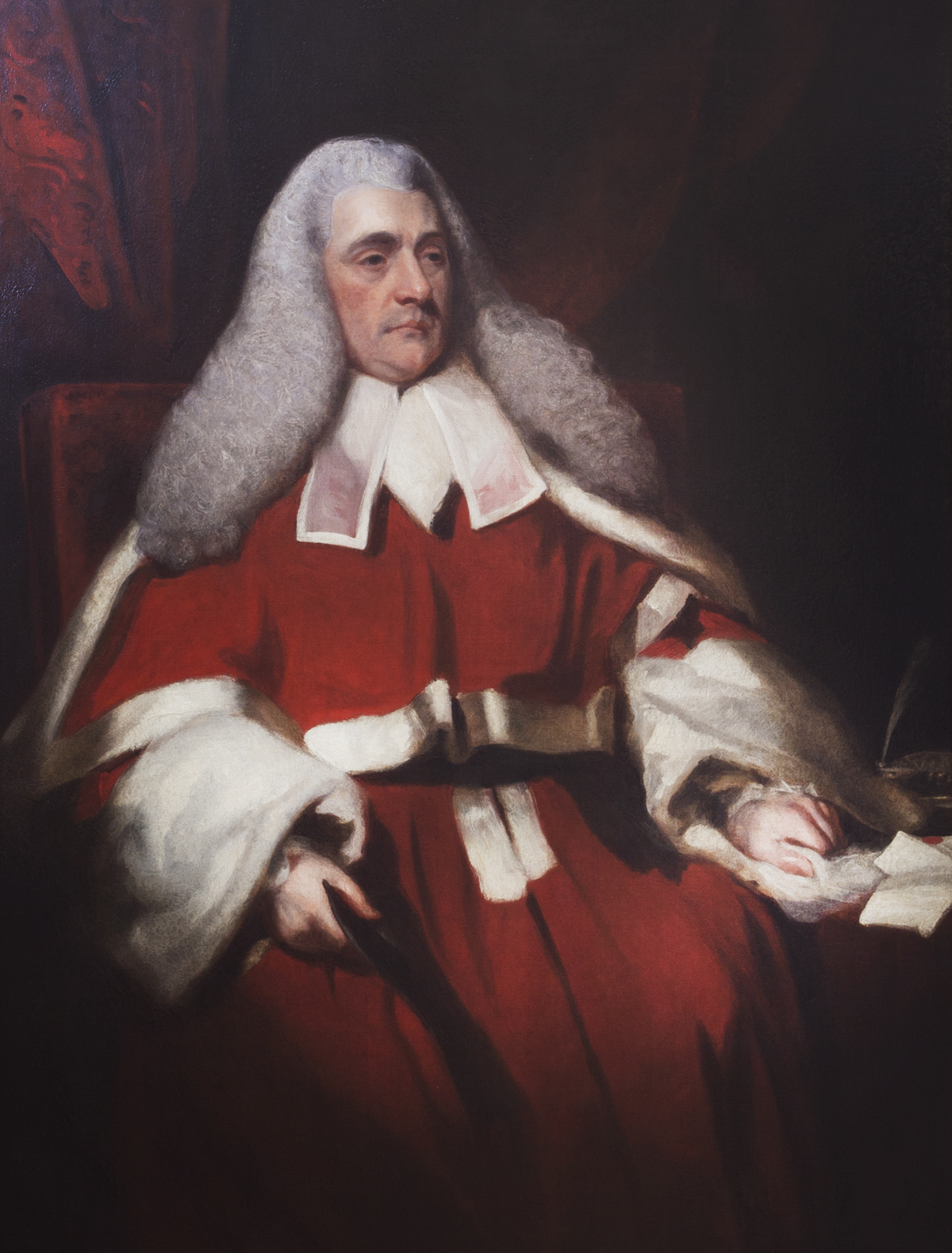 Portrait of Giles Rooke (1743-1808), English judge.